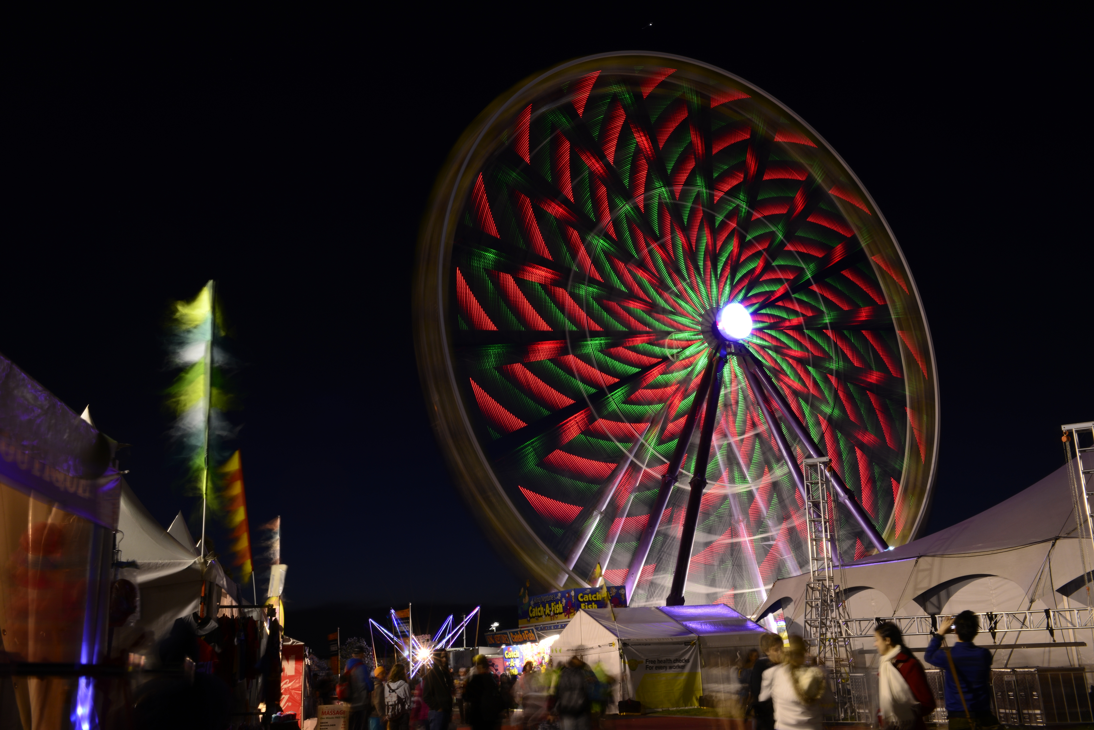 Depending on the length of time you set the exposure, you can get different patterns and colours from the wheel.